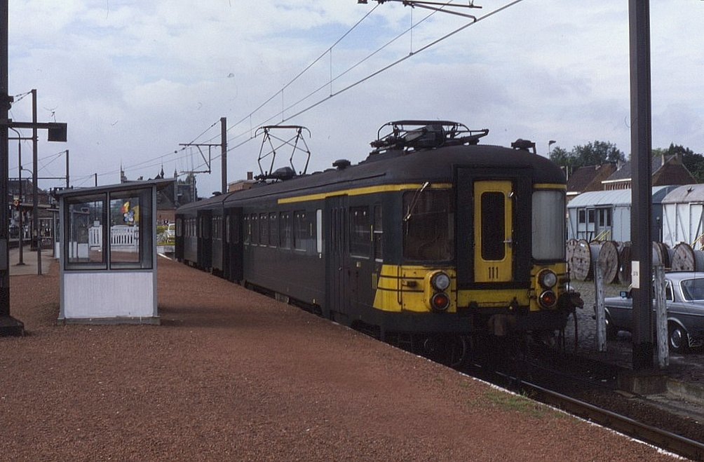 AM54 2-car EMUs part of a large family of these units seen in Belgium. This particular batch of 78 sets built in 1955 have now all been withdrawn. On 7 September 1987, no. 111 is seen at Halle.